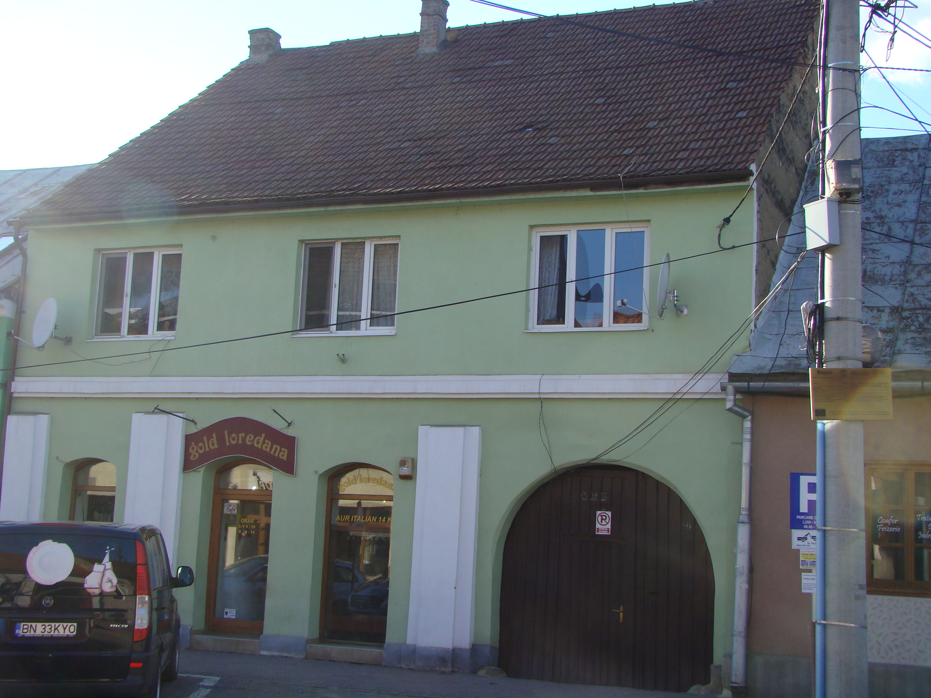 House, historic monument, in Bistriţa, Dornei street, number 29